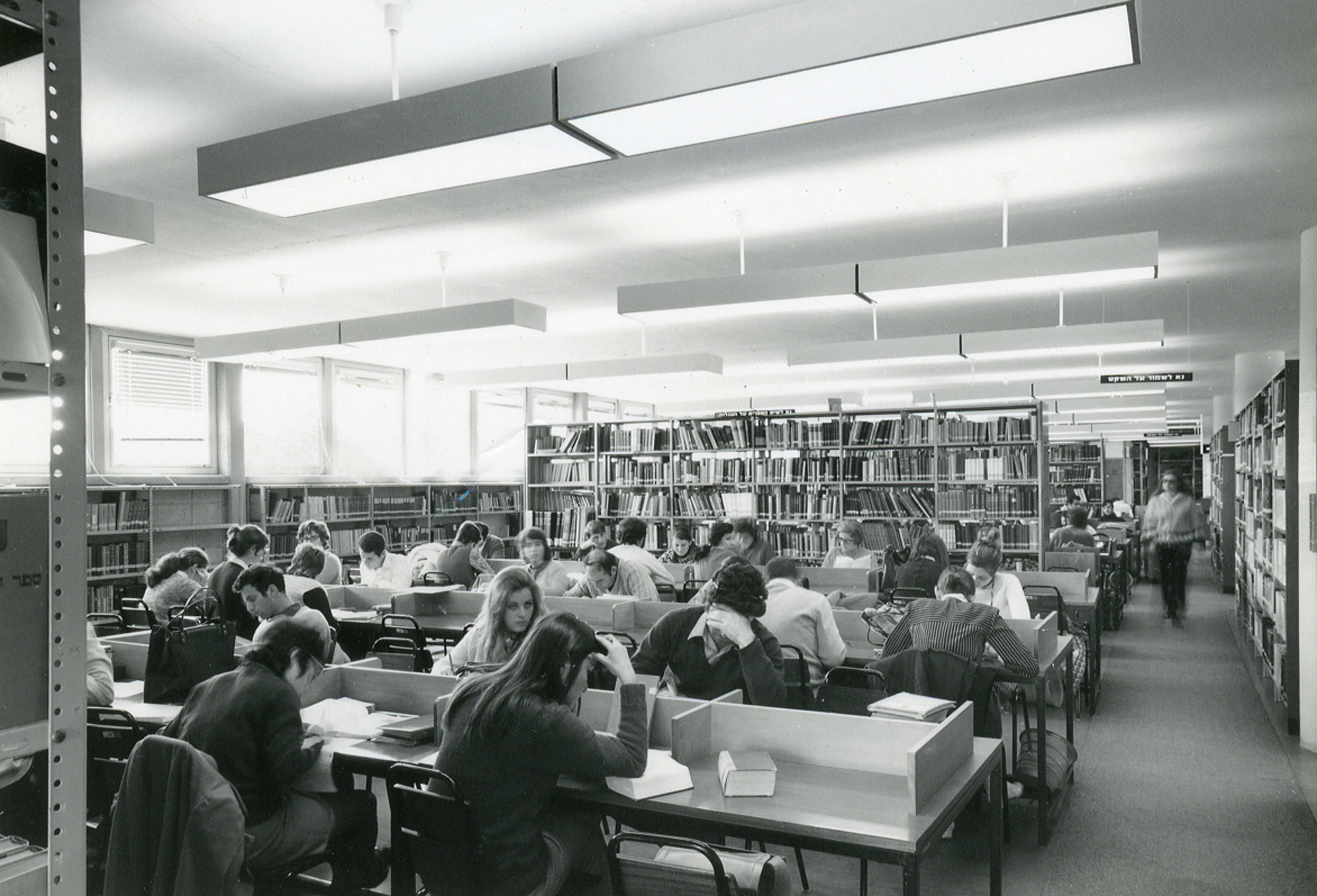 "Architecture_s5" מתוך התערוכה "הספרייה: מבט לאחור עם הפנים קדימה" (2011) ; פריט מספר From the display "The Library : A Glance at the Past, Facing the Future" (2011) ; Item number "Architecture_s5"